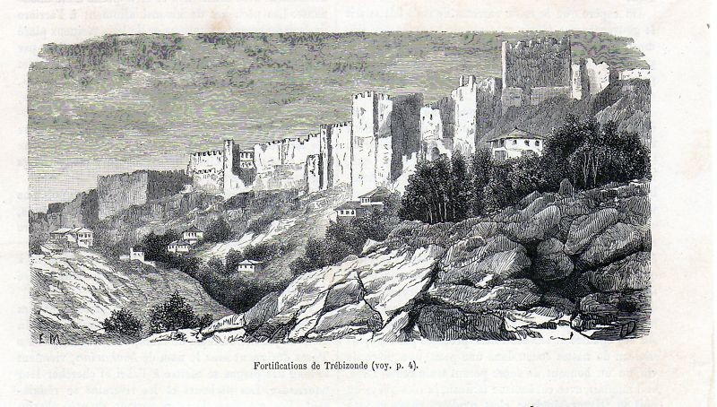 Fortifications of Trebizond as seen from the southwest. Published in 1875.